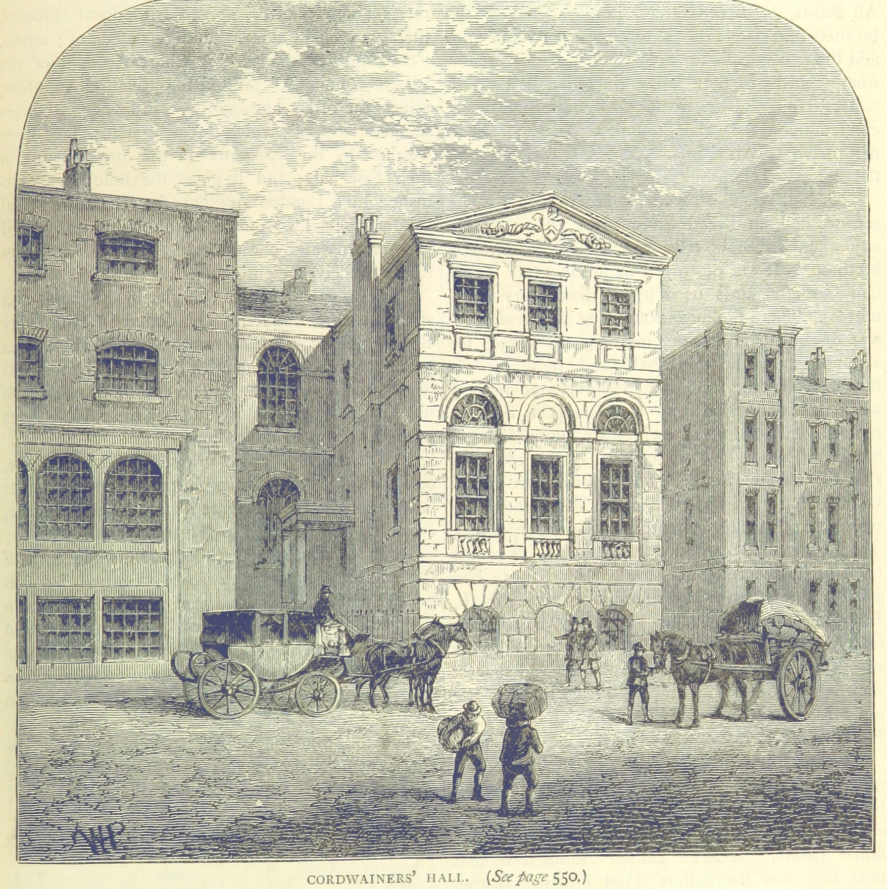 Old and New London, etc